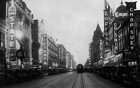 Theater Row Denver